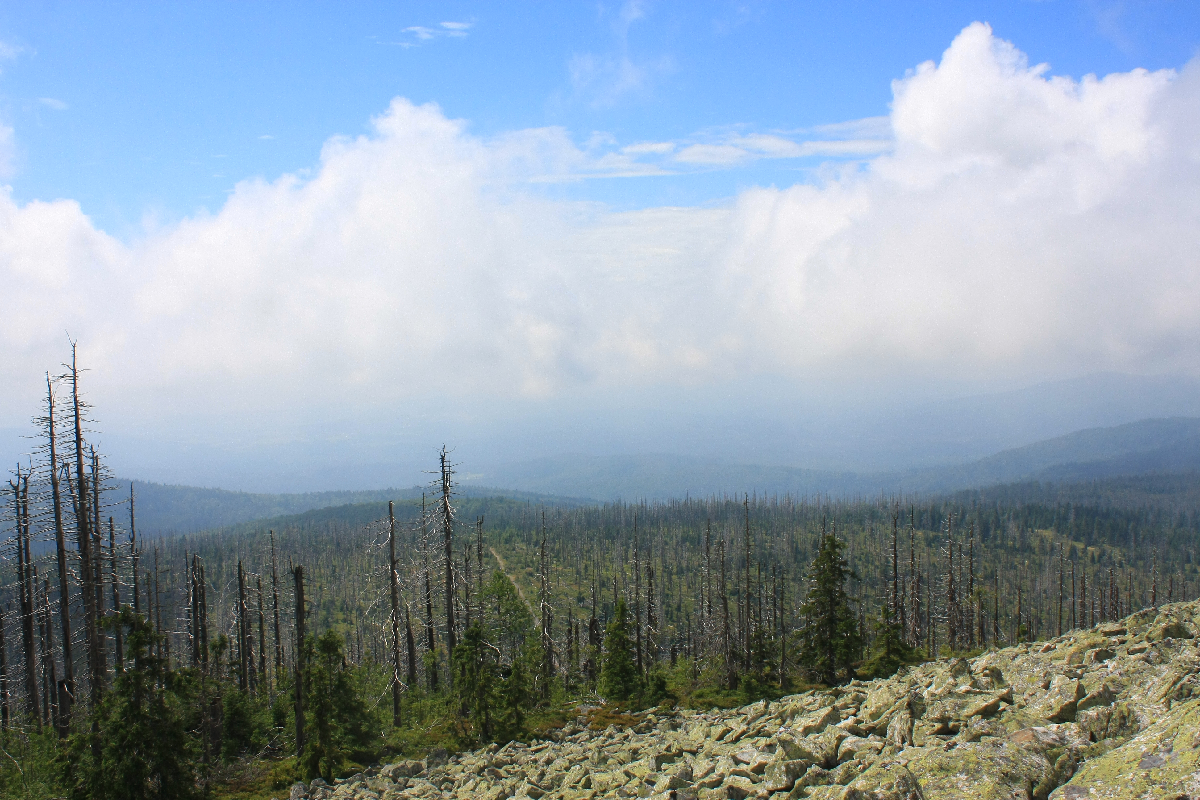 Lusen, Bavarian Forest Nationalpark